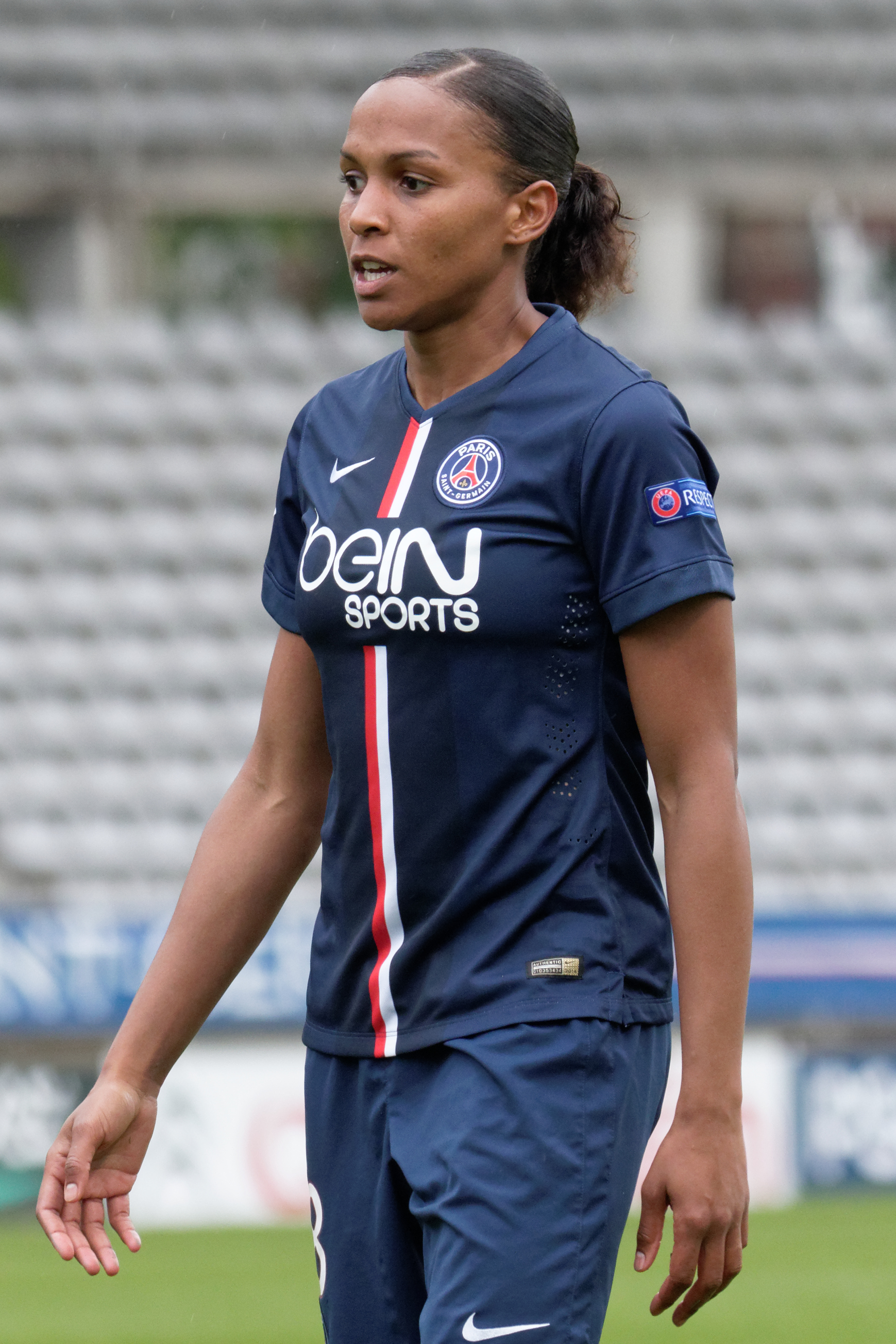 UEFA Women's Champions League, PSG - Wolfsburg, 26 April 2015.